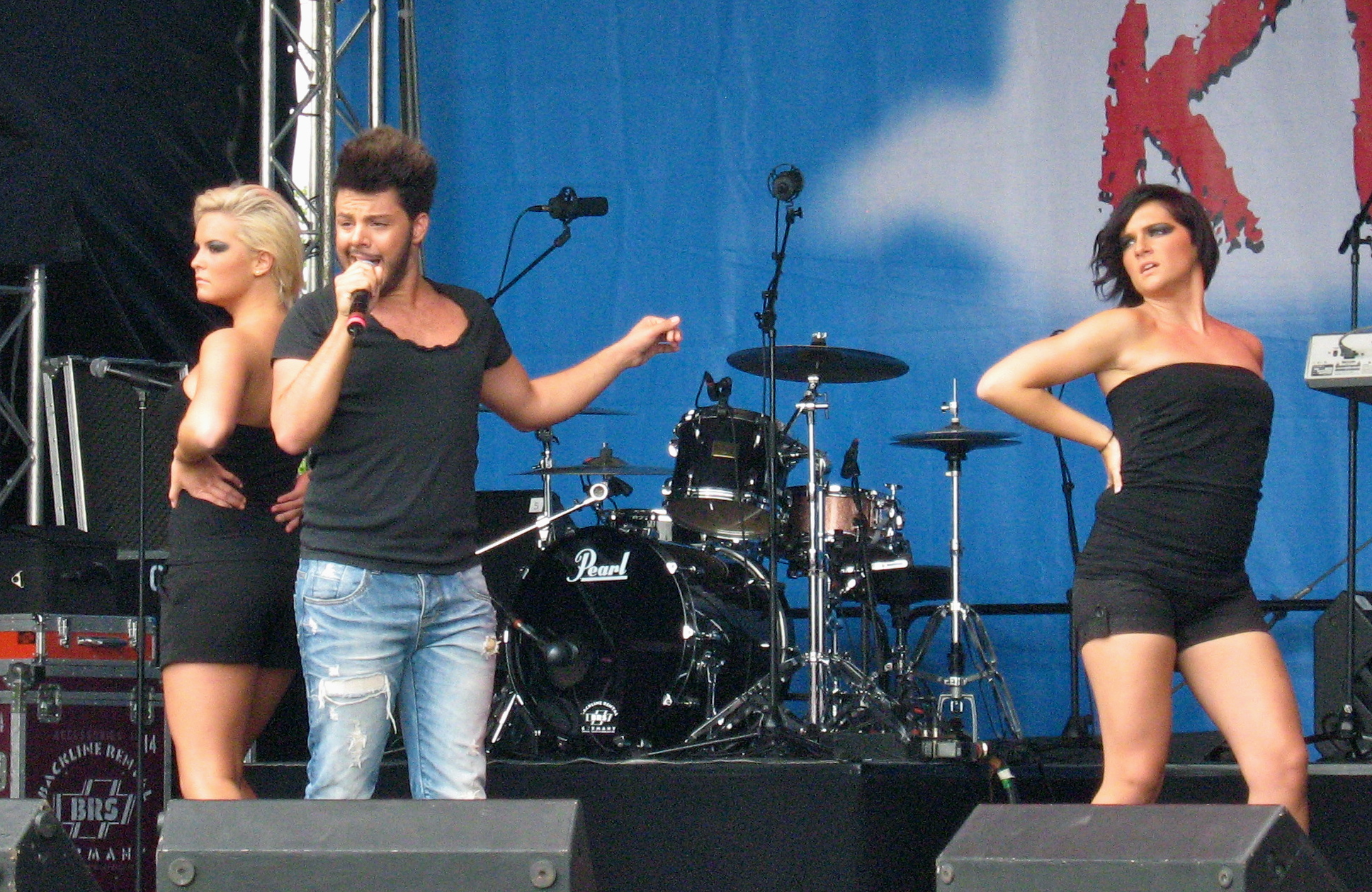 Pino Severino